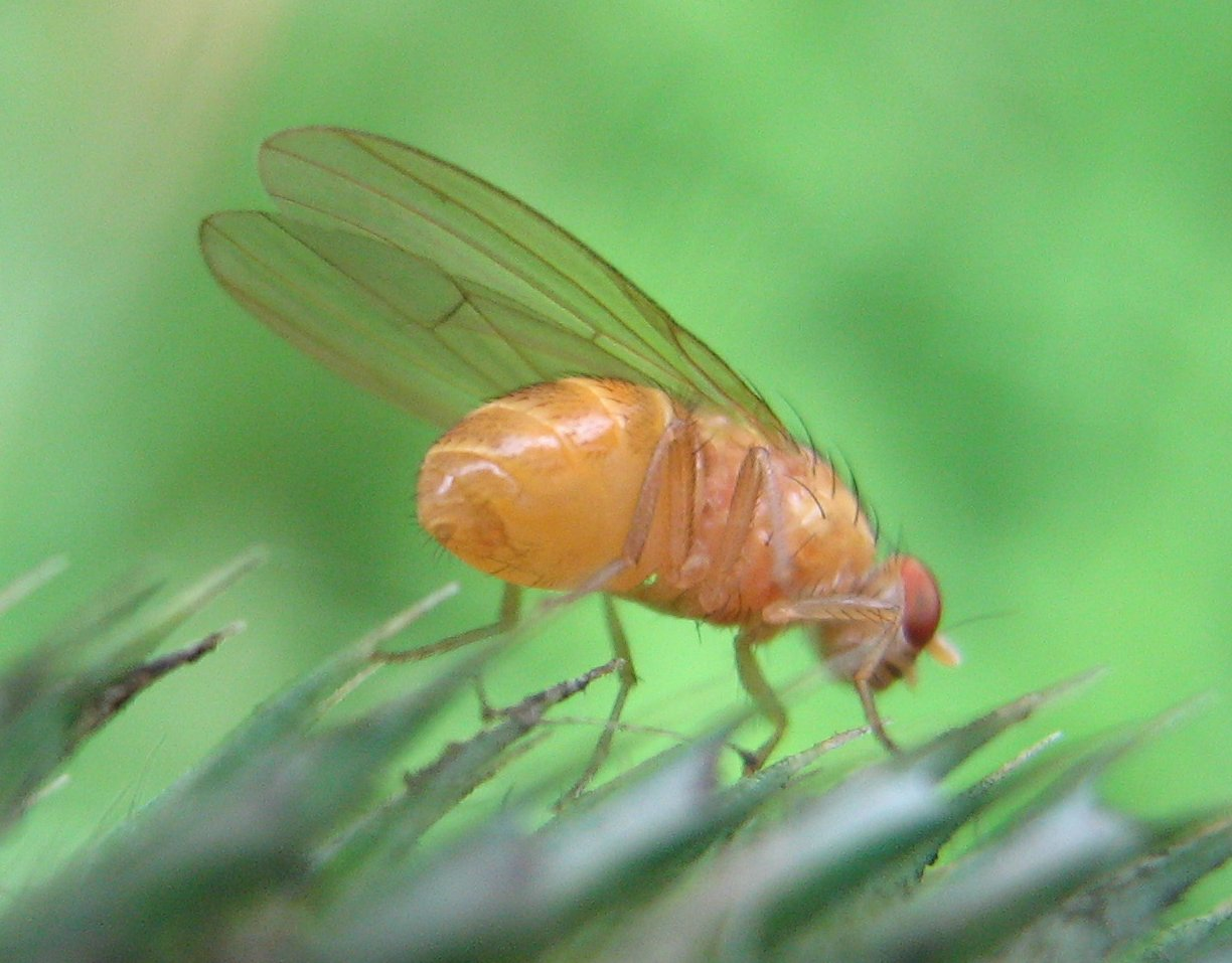 Drosophila melanogaster in the forest „Nauener Stadtwald“ in Brandenburg, Germany. Object location52° 37′ 55.1″ N, 12° 56′ 21.22″ E